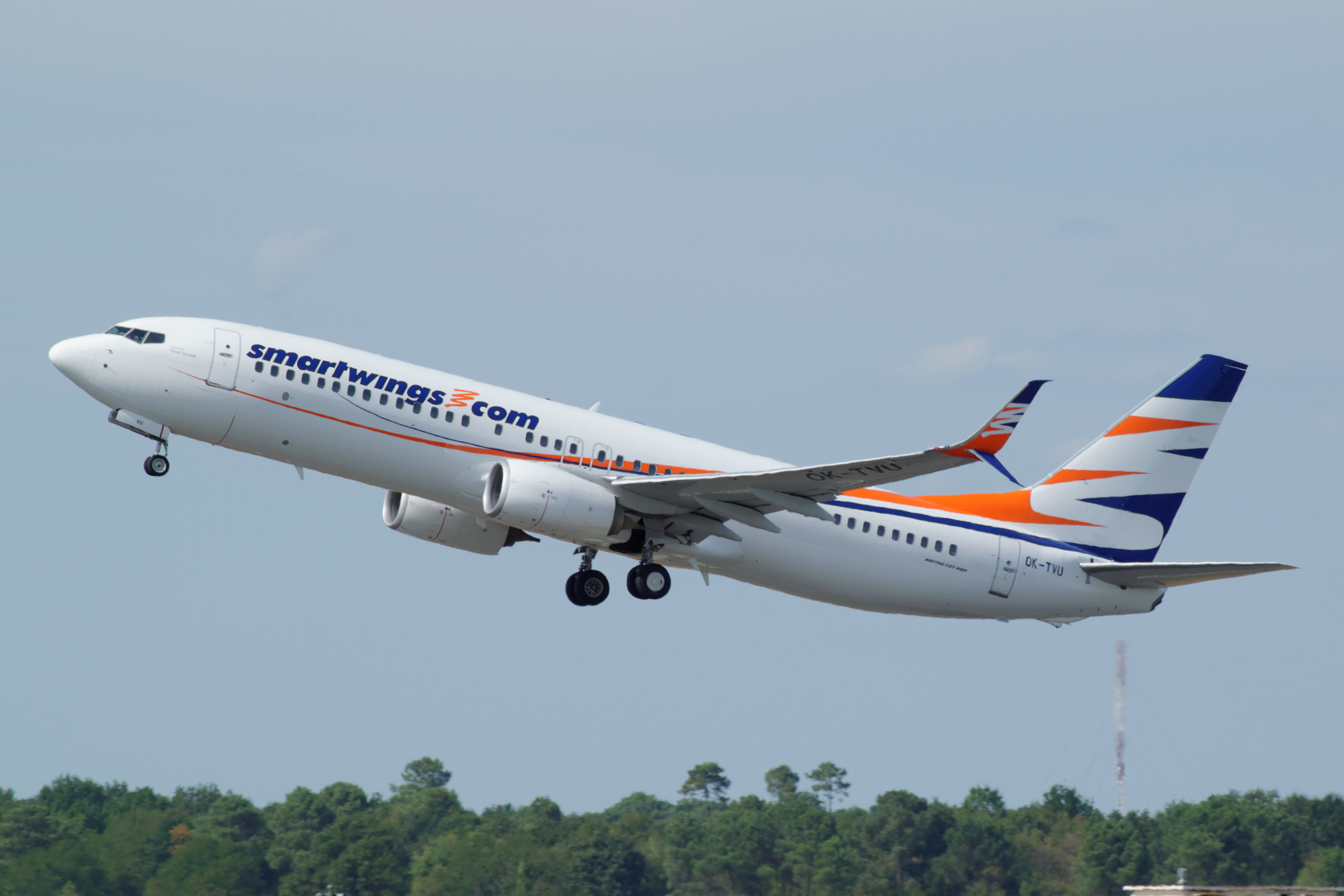 OK-TVU B737 Smartwings